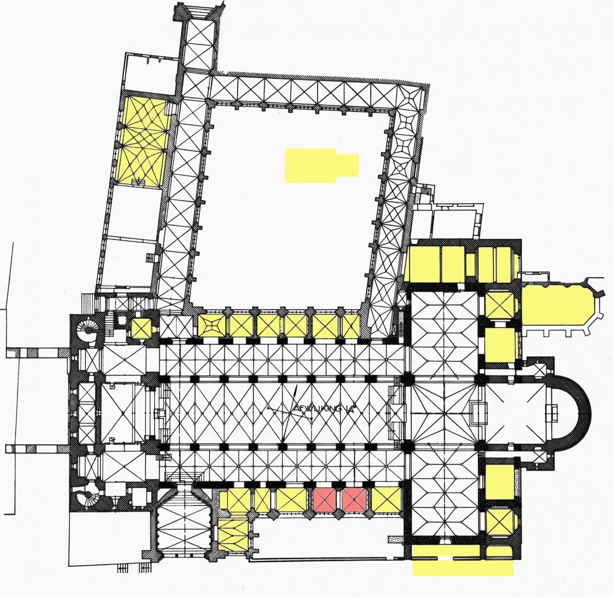 Locator map of chapels of the Basilica of Saint Servatius in Maastricht, the Netherlands. This map by an unknown author was first published in 1926 in Van Nispen tot Sevenaers De monumenten in de gemeente Maastricht, Deel 1, and donated to Wiki Commons by Rijksdienst voor het Cultureel Erfgoed on 7 January 2013. All colouring and other edits are by Kleon3. In yellow all 17 chapels of Sint-Servaasbasiliek in past and present. In red the chapel of Saint Barbara, the middle one of the south aisle chapels.